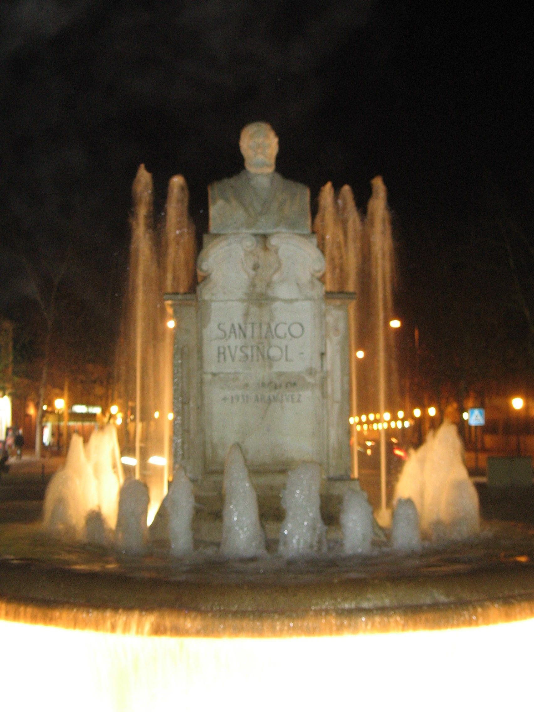 Santiago Rusiñol's statue in Aranjuez (Madrid, Spain), city where he died in 1931.